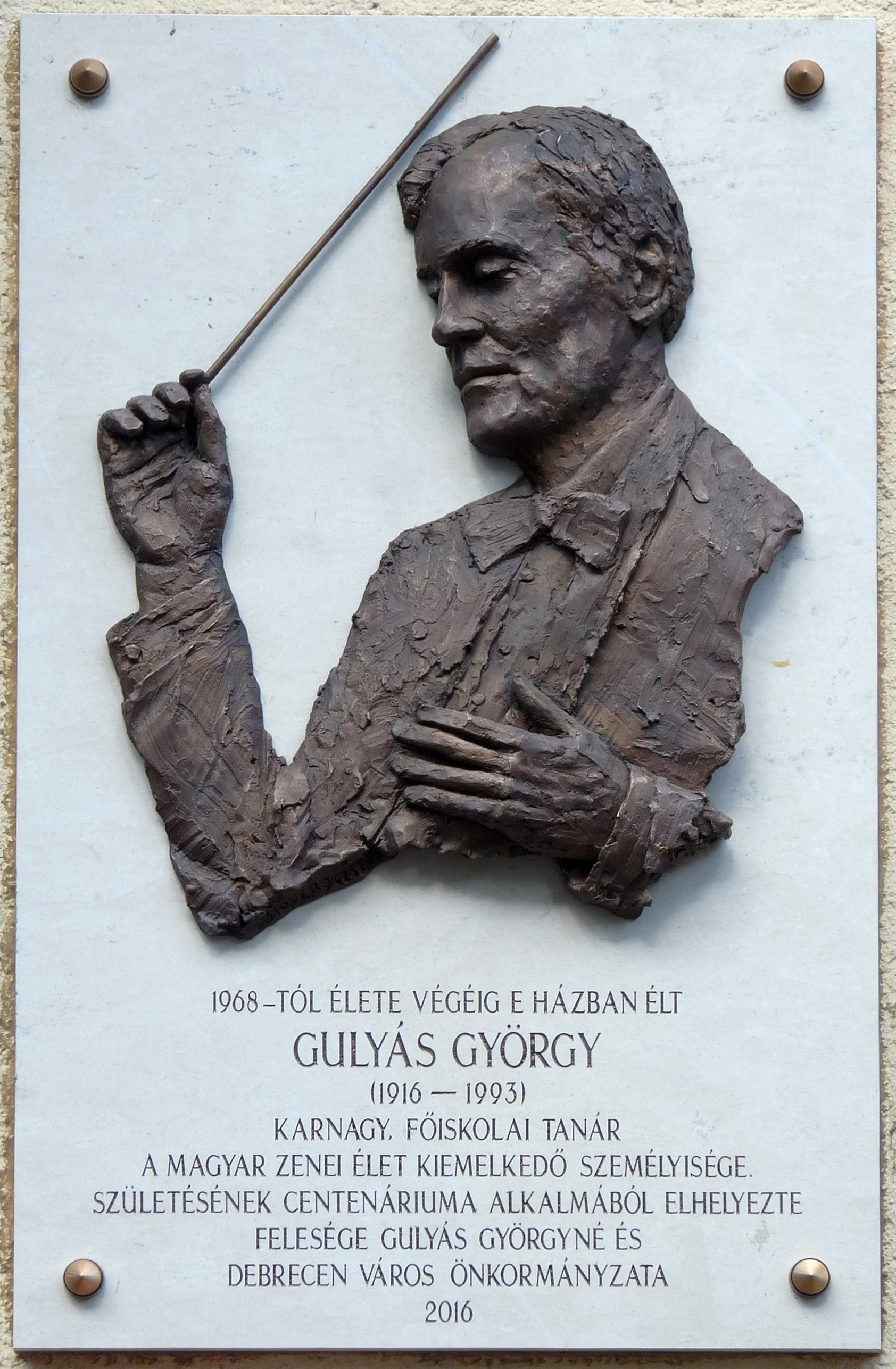 Commemorative plaque to Mr. György Gulyás (1916-1993) Hungarian head of orchestra and college professor. The plaque was affixed to the front of the house where he lived from 1968 until his death. It was unveiled on April 25, 2016. The bronze relief was sculpted by József Kövér. (Debrecen, Blaháné Street Nr 8)